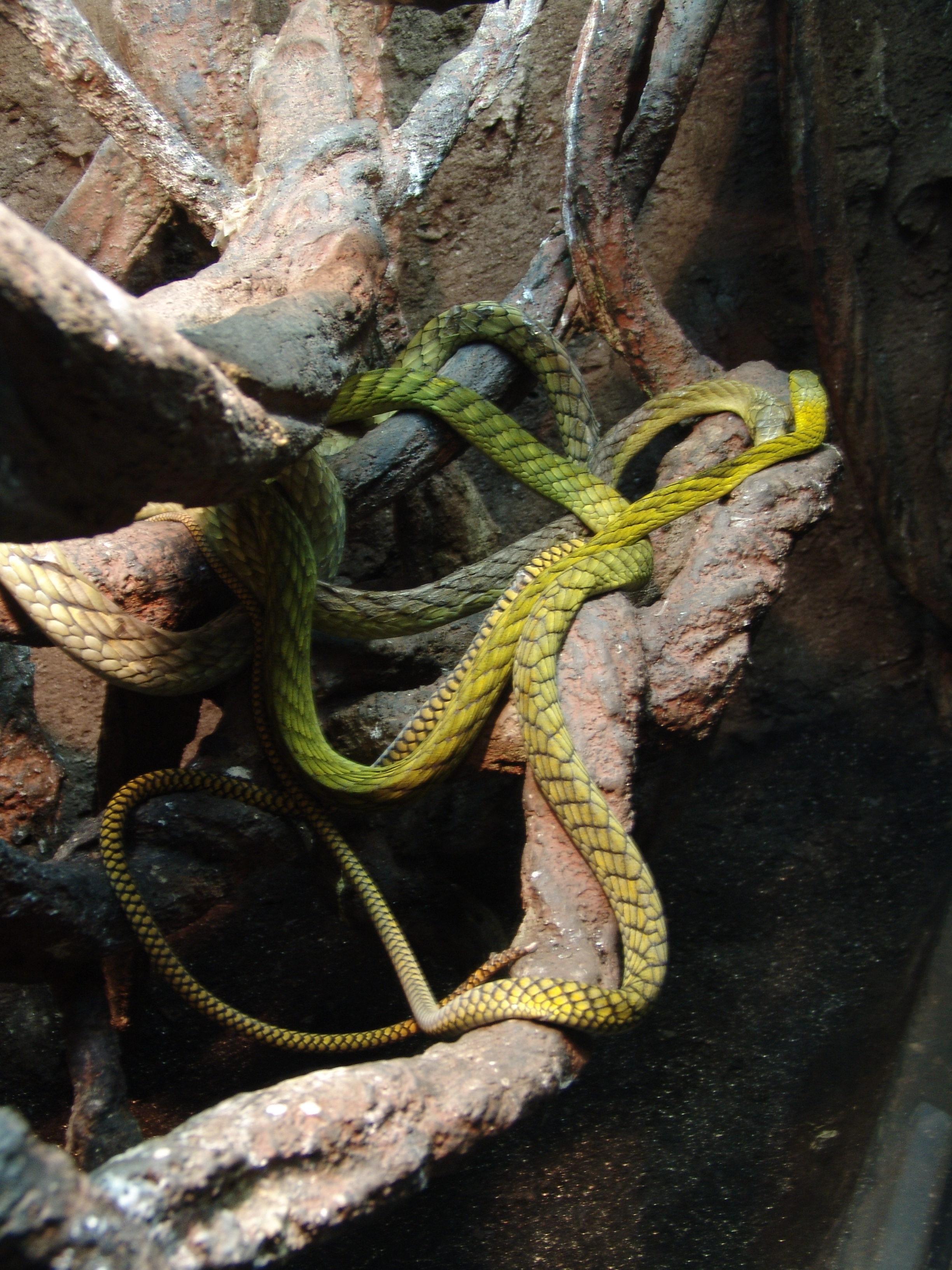 Western green mamba at Wilmington's Serpentarium. I took the picture.